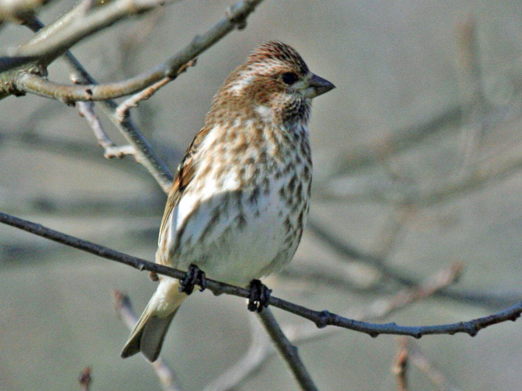 Female Purple Finch (Carpodacus purpureus) - Virginia